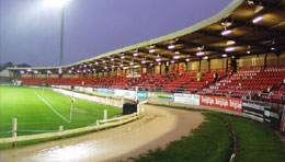 Photo of the Brandywell's New Stand. Copyright holder initially gave me permission to use image in Wikipedia, as long as it is for a non-commercial and educational purpose related to Derry City FC. Since, I requested that they make it available under a free licence in order for its use to be permitted on Wikipedia. They obliged.